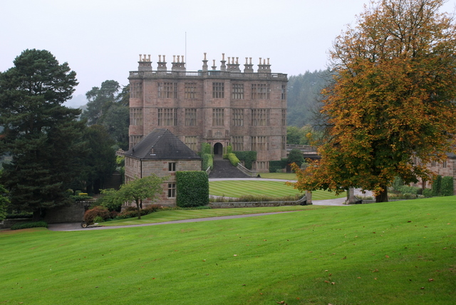 Wootton Lodge This beautiful building has an equally superb setting in rolling parkland with several lakes to the rear.